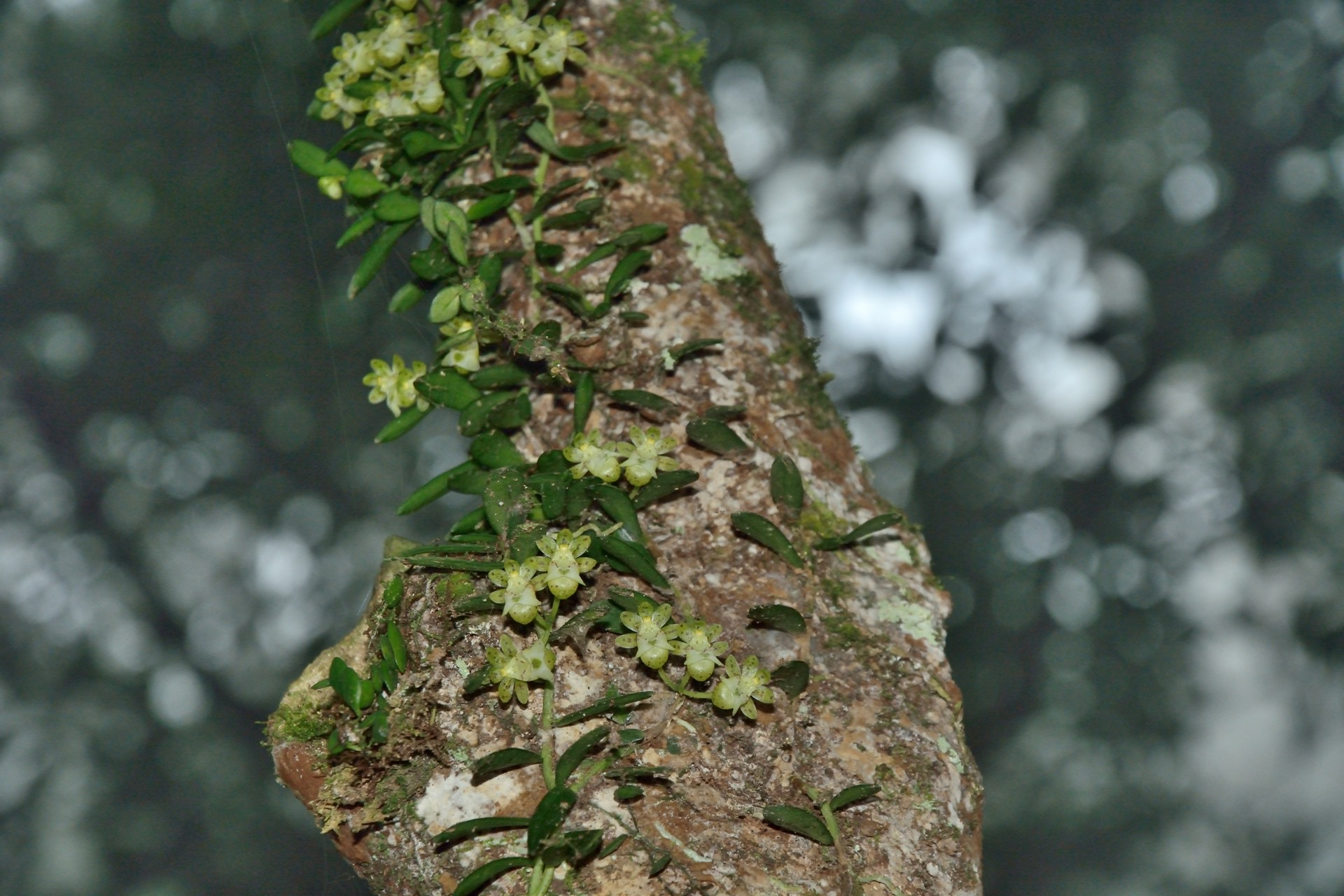 Gastrochilus formosanus in habitat